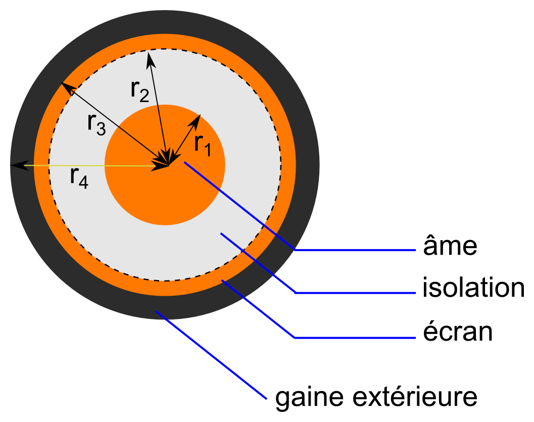 Description of a high-voltage cable.